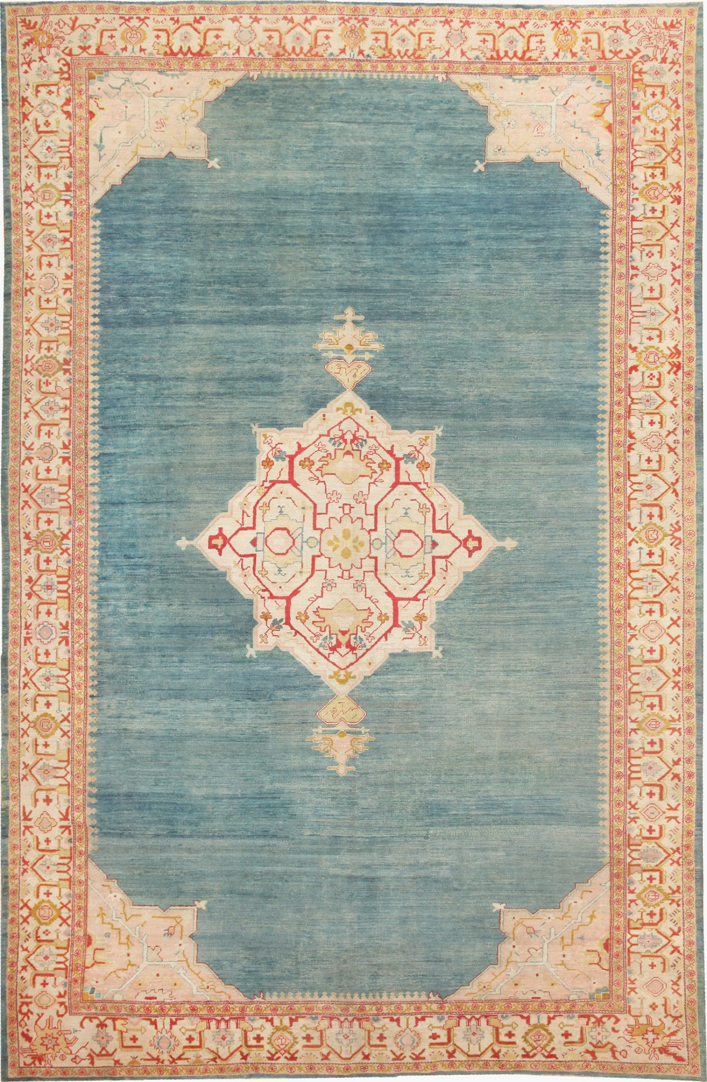 he carpet's superb cerulean field is adorned with a minimalist medallion-and-corner design that highlights the open space of the ground and its rich variegated abrash. Strongly outlined palmettes and delicate botanical decorations adorn the central medallion while complementing the regal ivory and coral red accents that appear in the ornamental main borders. Classical reciprocating floral guardbands flank the regal primary borders, which feature decorative symbols and compound motifs that form angular turtle-like units.